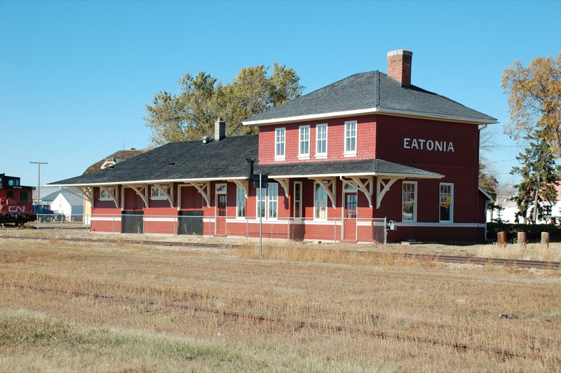 CN Train Station, Eatonia, Saskatchewan, Canada. Now serves as a public library.